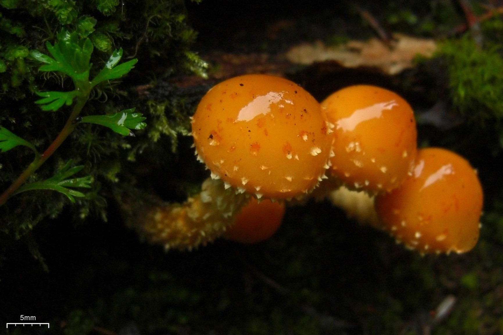 Pholiota limonella Location: Henry Jackson Wilderness, Washington, USA Observation Notes: on log in hemlock forest near Pear Lake ~4500’; nice and slimy For more information about this, see the observation page at Mushroom Observer.